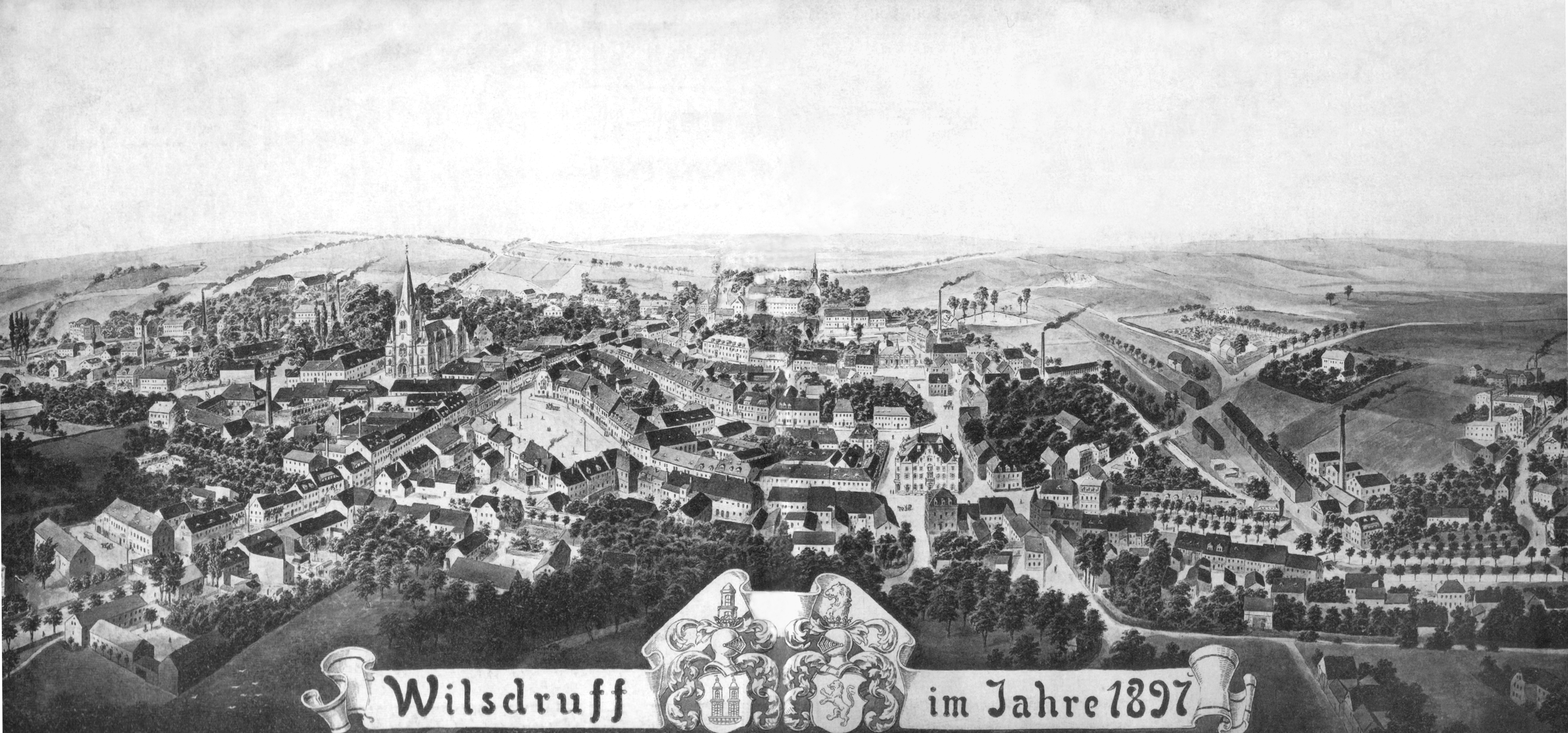 The town of Wilsdruff (in Germany) in 1897.